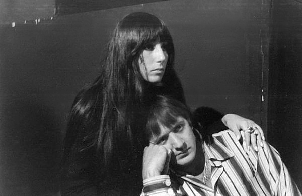 Another one from the archive... Sonny & Cher were an American pop music duo, actors, singers and entertainers made up of husband-and-wife team Sonny and Cher Bono in the 1960s and 1970s. The couple started their career in the mid-1960s as R&B backing singers for record producer Phil Spector. The pair first achieved fame with two hit songs in 1965, "Baby Don't Go" and "I Got You Babe". Signing with Atco/Atlantic Records, they released three studio albums in the late 1960s, as well as the soundtrack recording for an unsuccessful movie, Good Times. In 1972, after four years of silence, the couple returned to the studio and released two other albums under the MCA/Kapp Records label. I took this now battered and scratched old photograph of them during a rehearsal break at ABC Television’s Wembley studios on 26 May 1966.